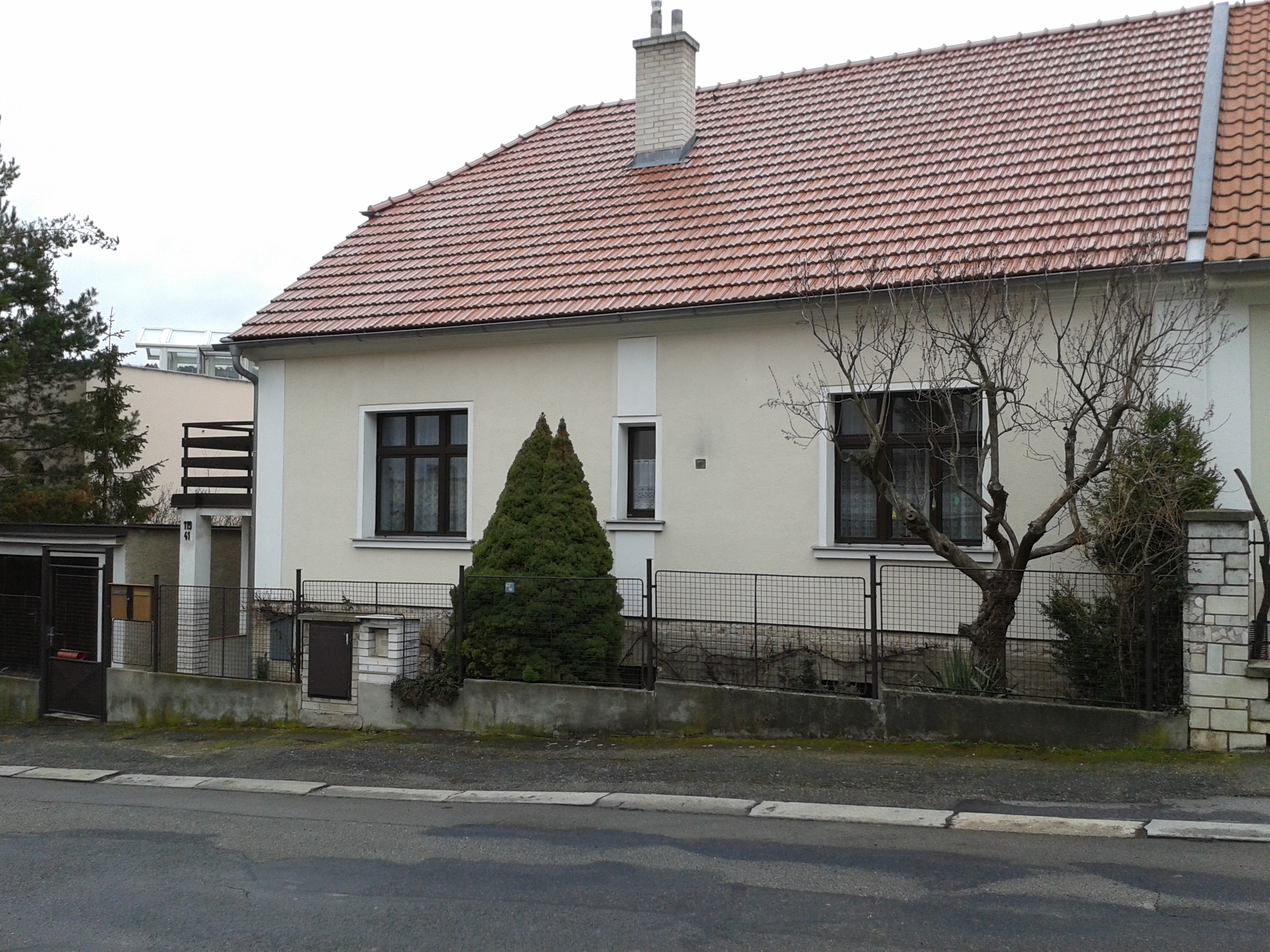 House of husbands Anna Spronger and Antonin Springer is situated on the address: Slivenecká 119/41, 152 00 Prague 5 - Hlubočepy. During protectorate from this place was twice illegally broadcasted by radio (Sparta I) cyphered dispatches to London.